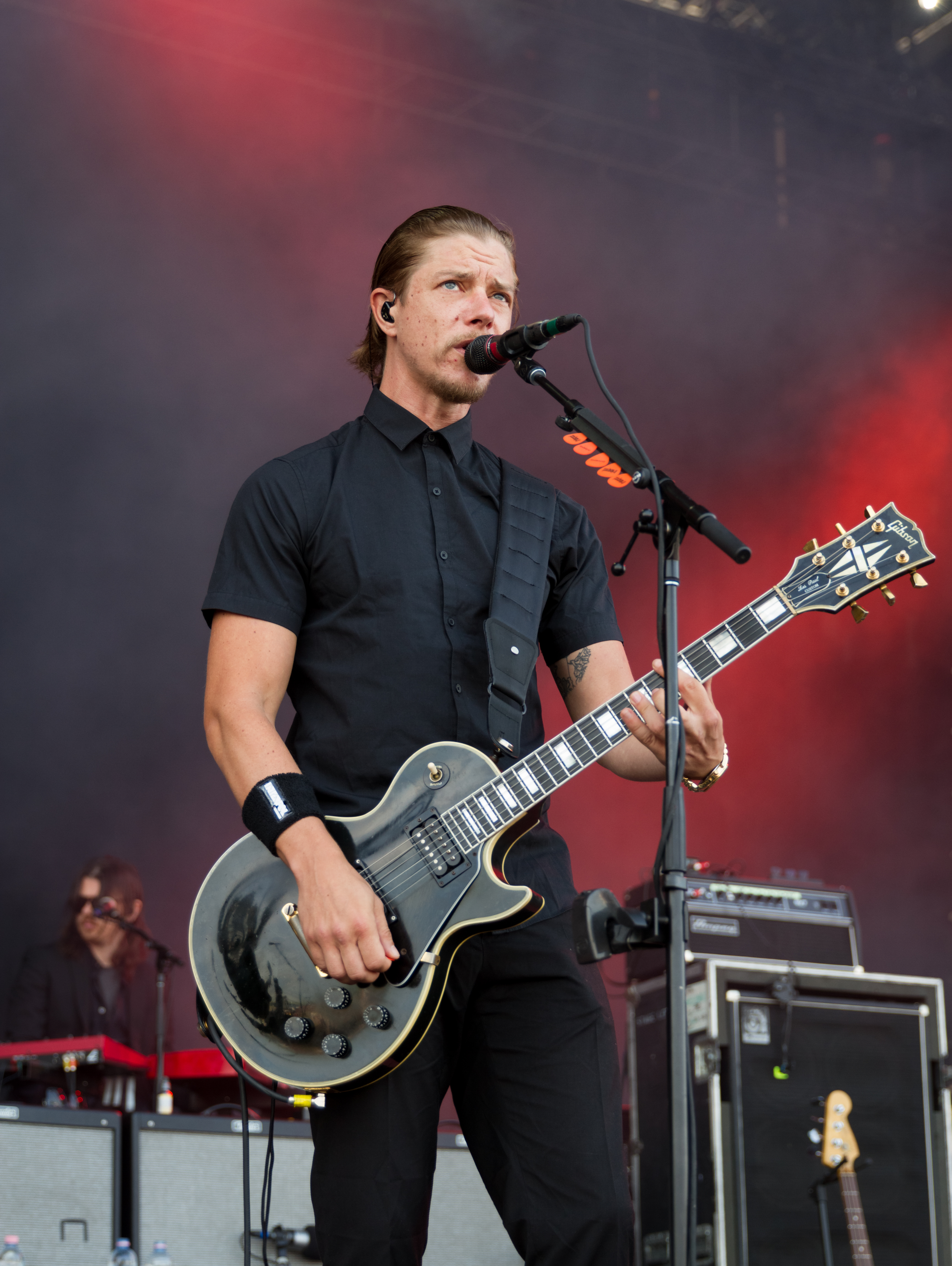 Interpol (Band) - Rock am Ring 2015